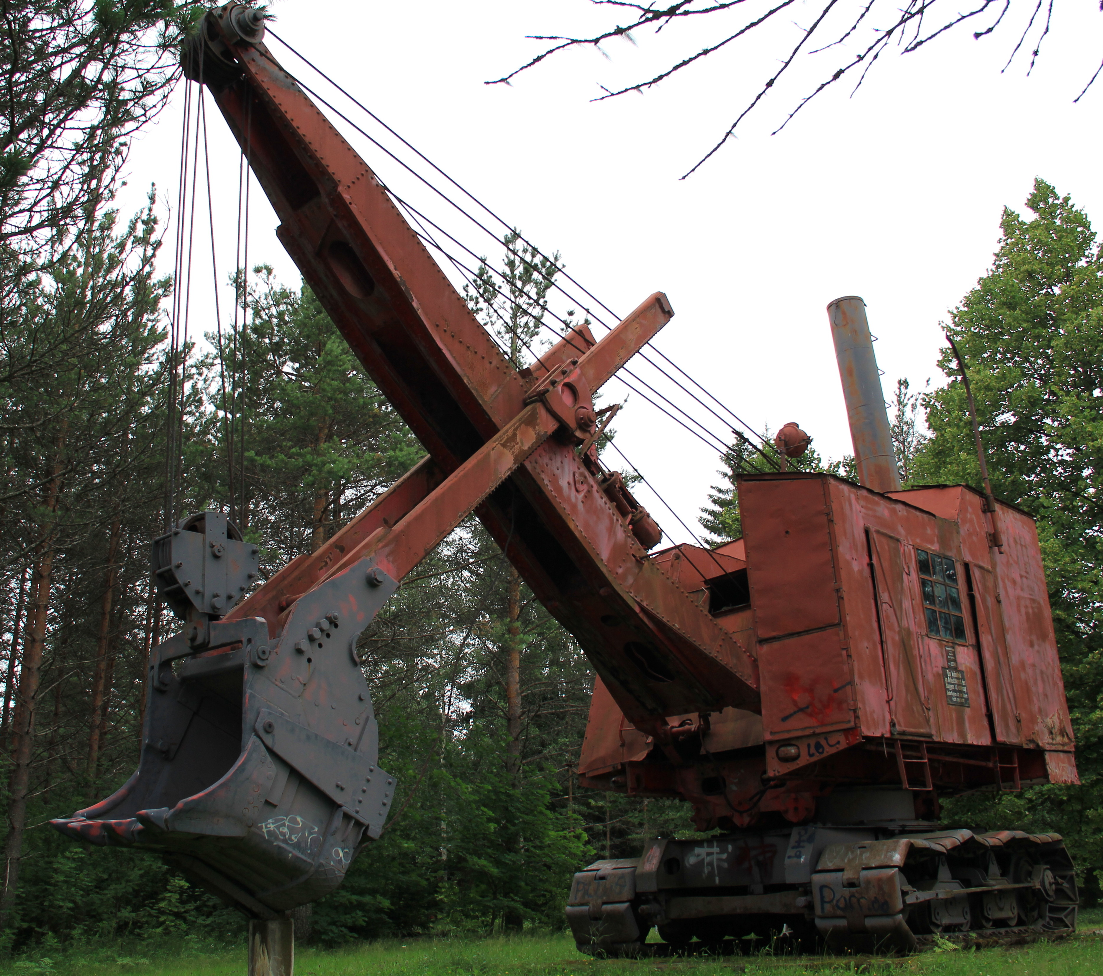 Orenstein & Koppel steam shovel near Kitee railway station, Kitee, Finland.